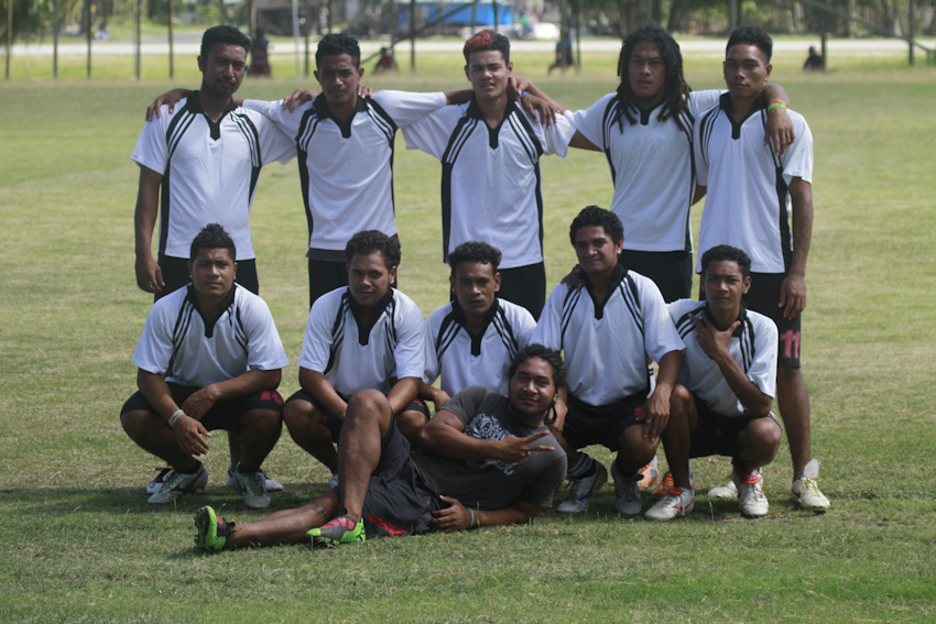 Tamanuku